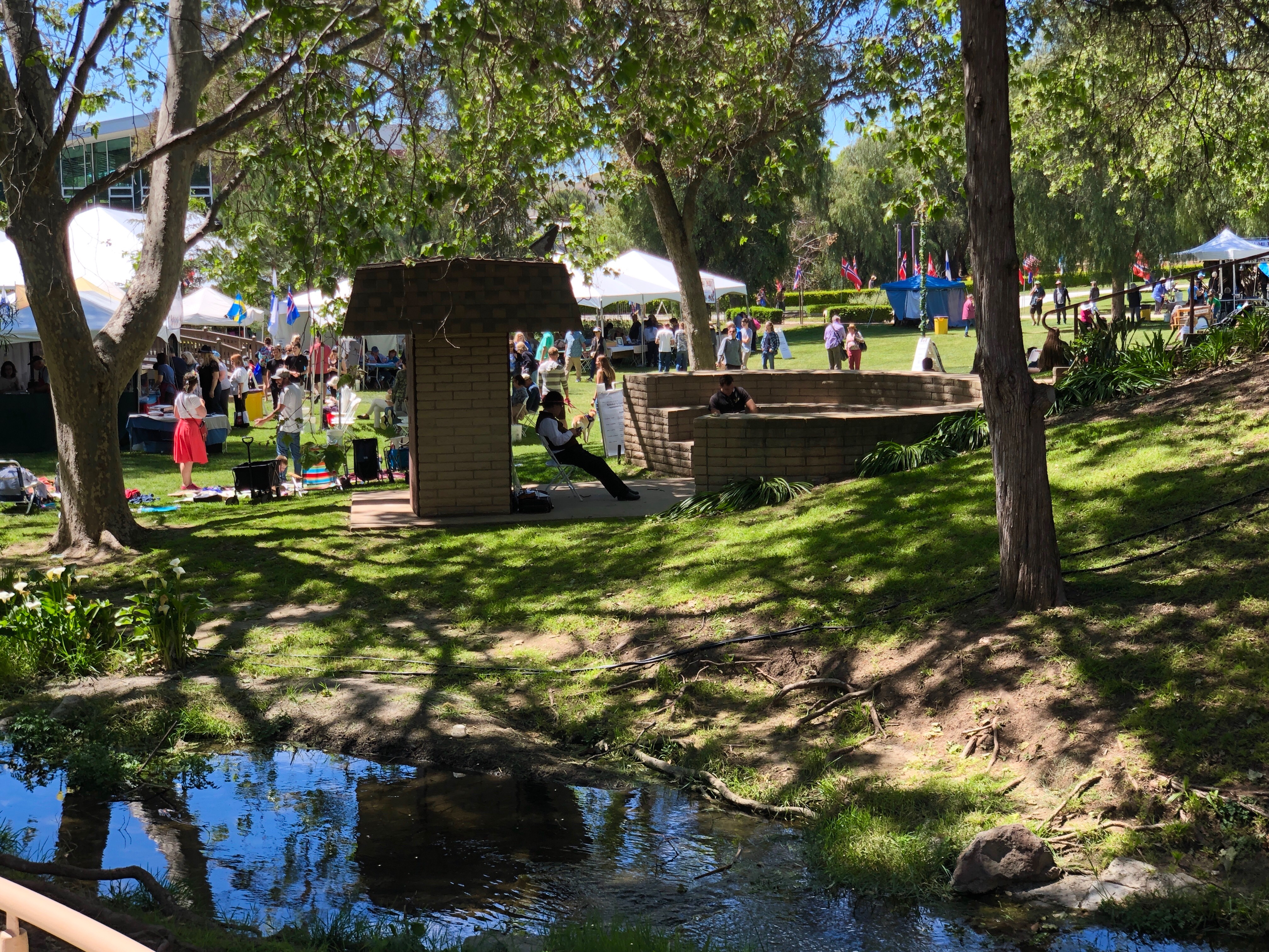 The Mathews Learning Alcove Amphitheater in Kingsmen Park at California Lutheran University